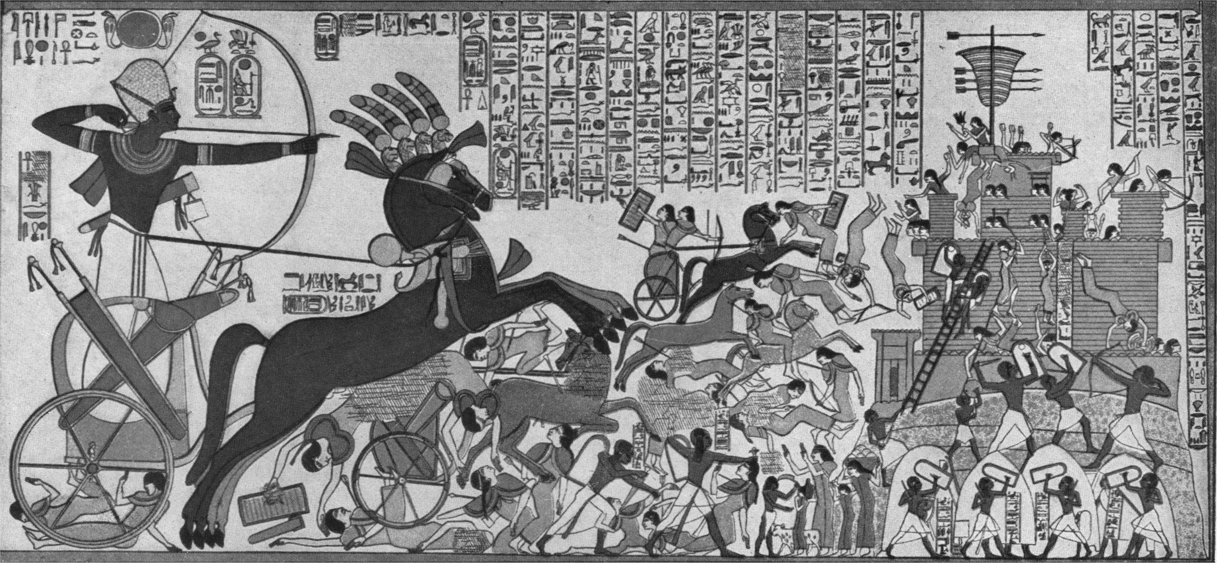 Ramesses II's victory over the Cheta people and the Siege of Dapur. Made after a mural in Ramesses II's temple in Tebes